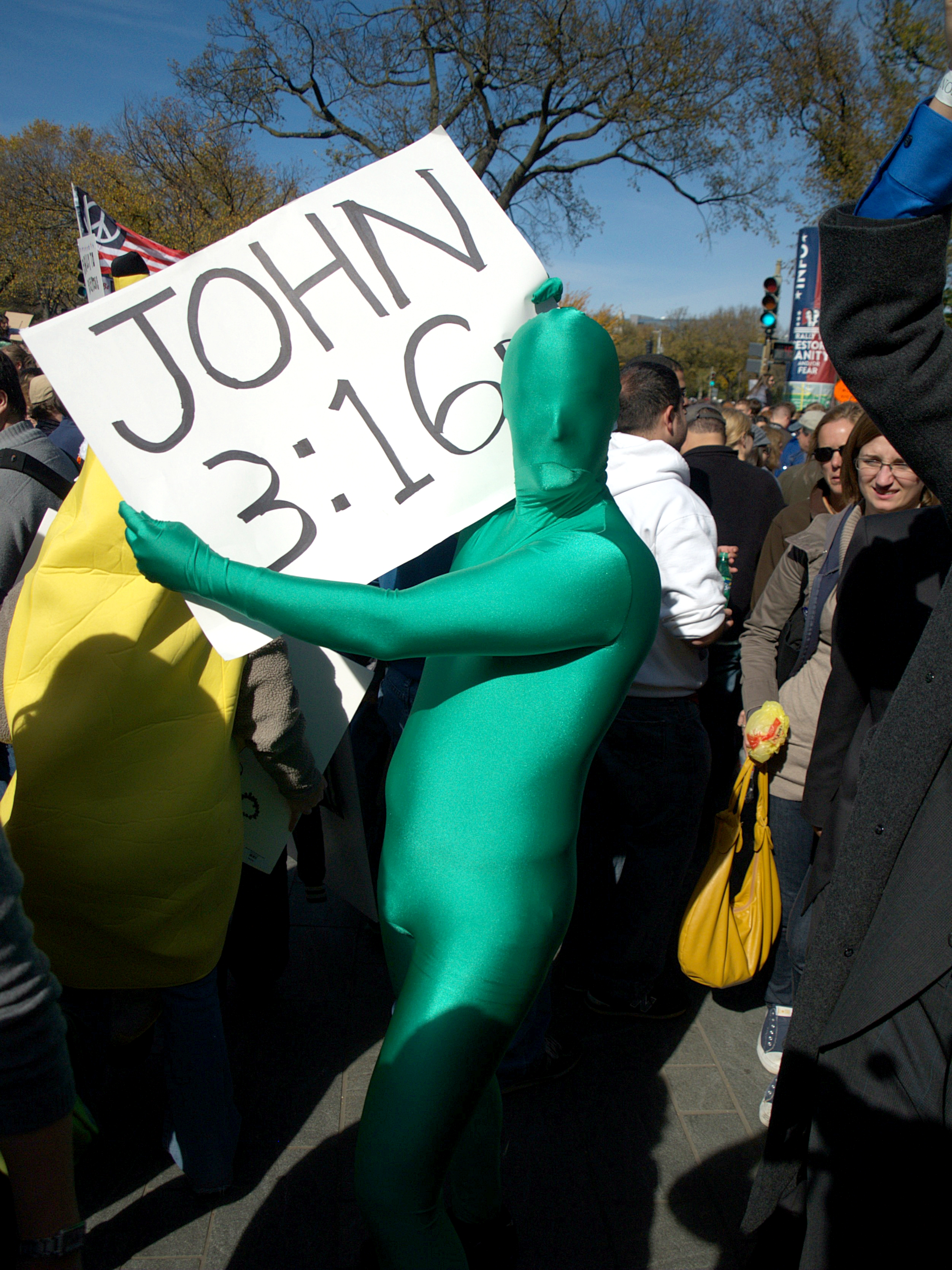 Photographs of the Rally to Restore Sanity and/or Fear, green man holding John 3:16 sign.